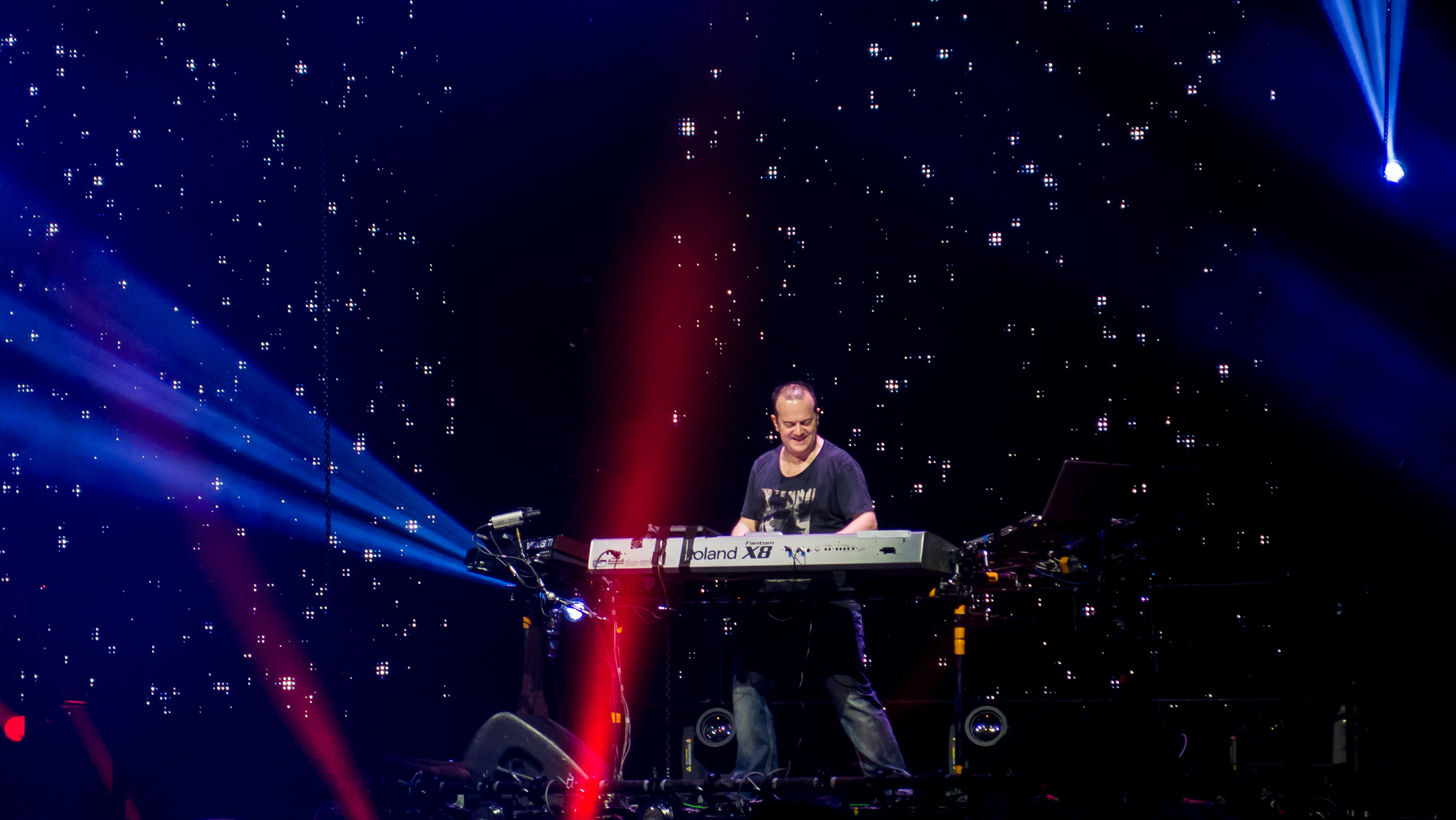 Rick J. Jordan at the concert in Berlin, January 11, 2014